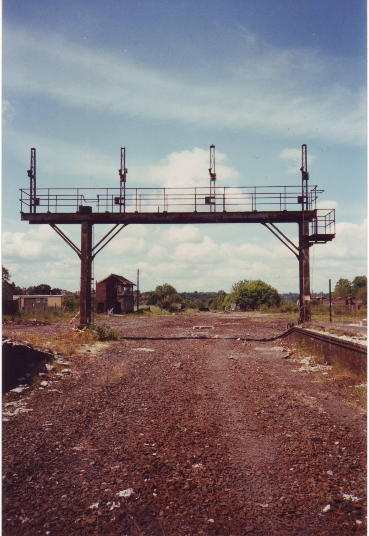 Former signals gantry at Tunbridge Wells West, Kent